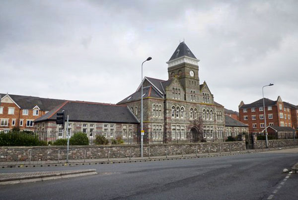 The main entrance buildings and clock tower of St Davids Hospital, Cowbridge Road East, Cardiff (originally built in 1881 for the Cardiff Union Workhouse), now converted into residential apartments